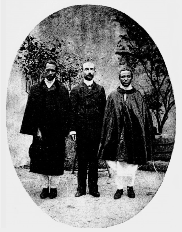 Photograph showing Léonce Lagarde (center), governor of French Somaliland and minister plenipotentiary to Addis Ababa, Ethiopia, with two Ethiopian princes, then on a mission to France. Lagarde had accompanied the two Ethiopians on their trip to France in August 1898. Published in the 9 October 1898 issue of La France Illustrée.